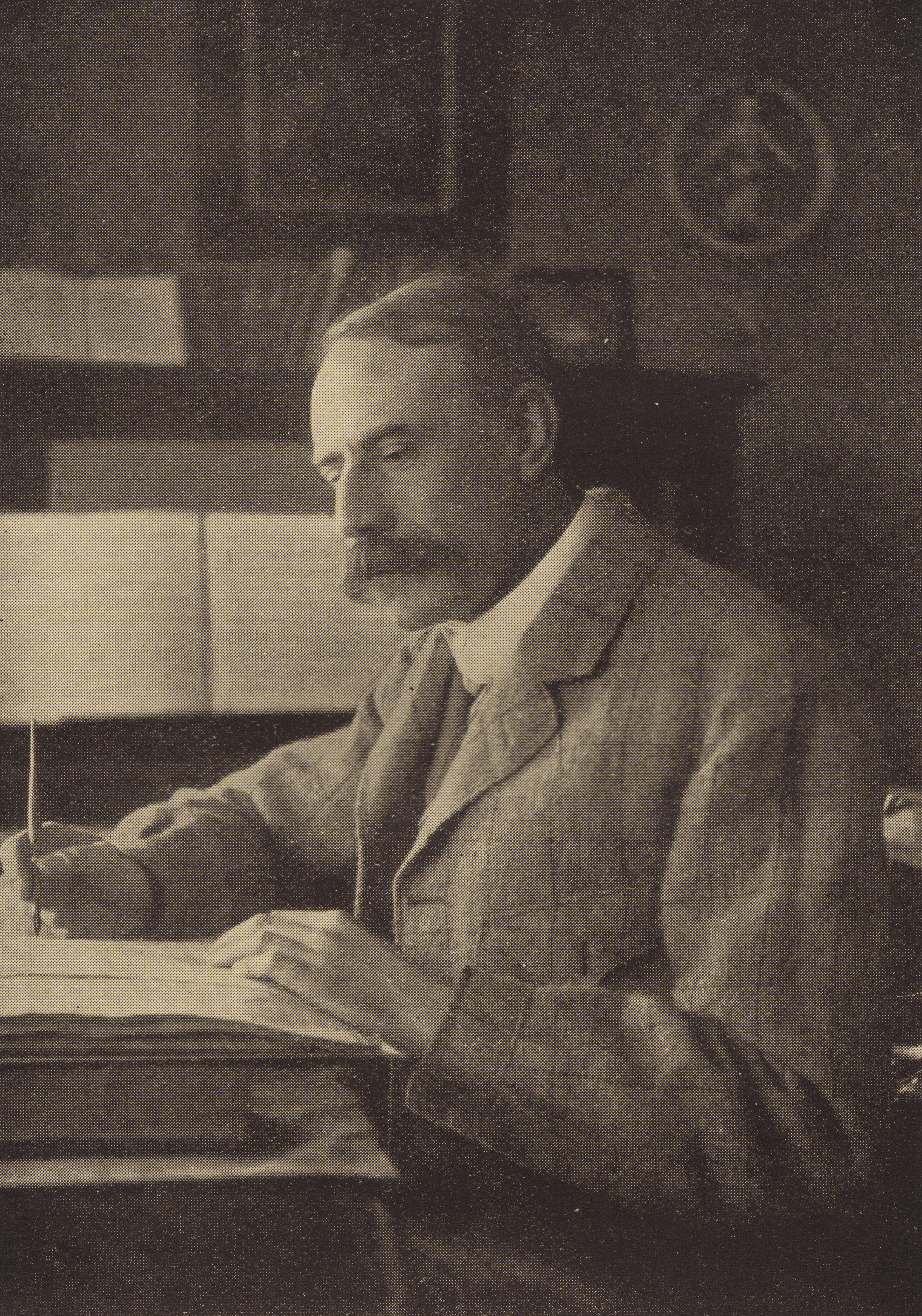 Scanned from Modern Musicians by J. Cuthbert Hadden (First published by T.N.Foulis in 1913) - September 1918 Foulis reprint. Book is in the Public Domain in the US and UK. Scanned as 1200 dpi bitmap (photo) then converted to jpeg.